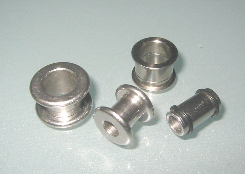 photo by User:Nicor